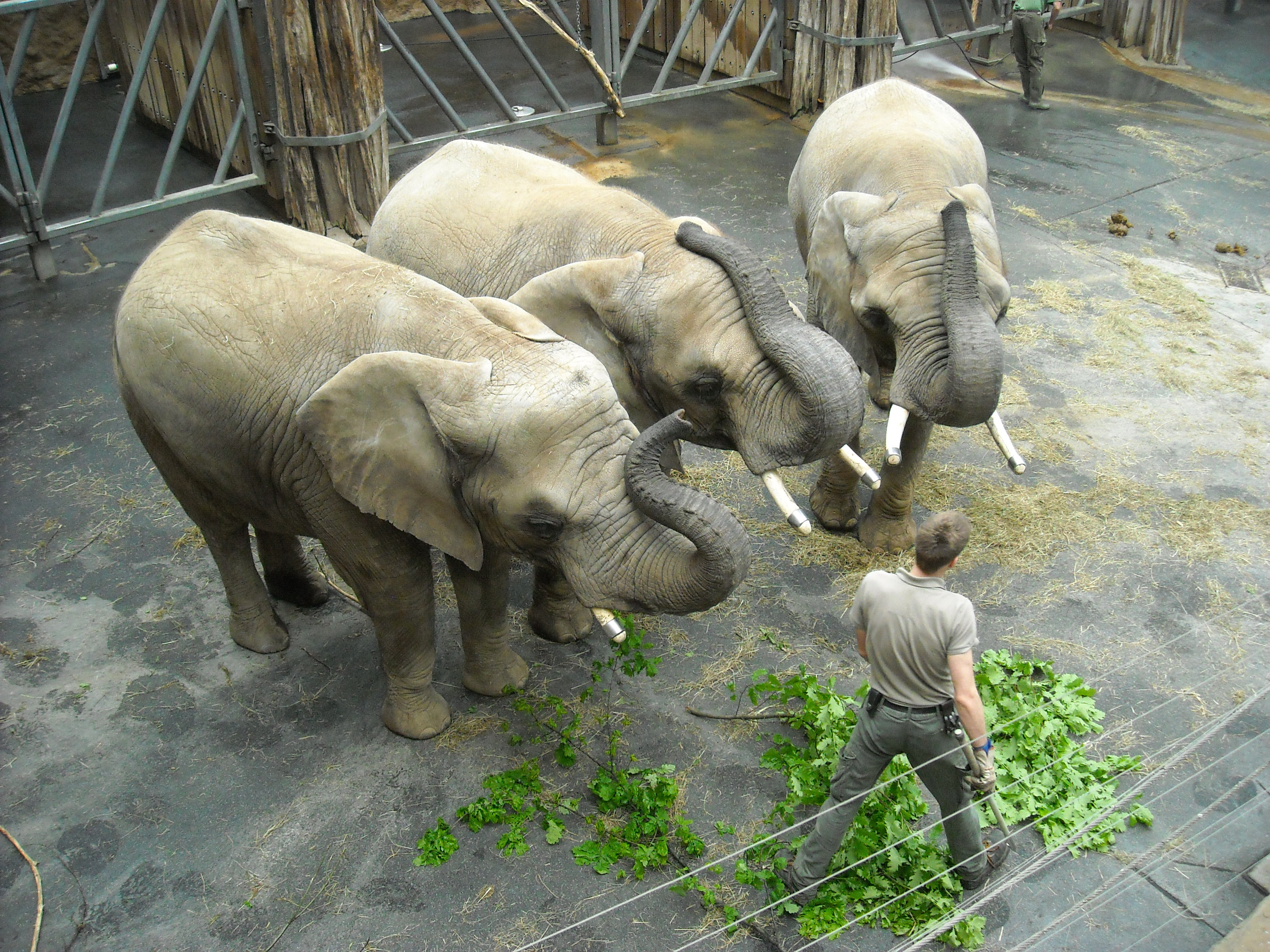 African elephants in the Dresden Zoo